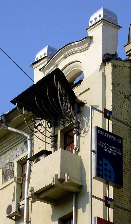 Sokol Building, 1903-1904, by Ivan Mashkov, 3 Kuznetsky Most Street, Moscow